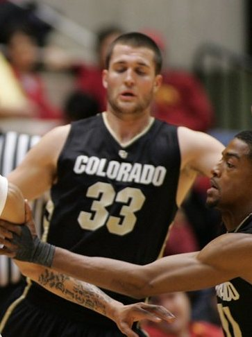 Diante Garrett and Austin Dufault